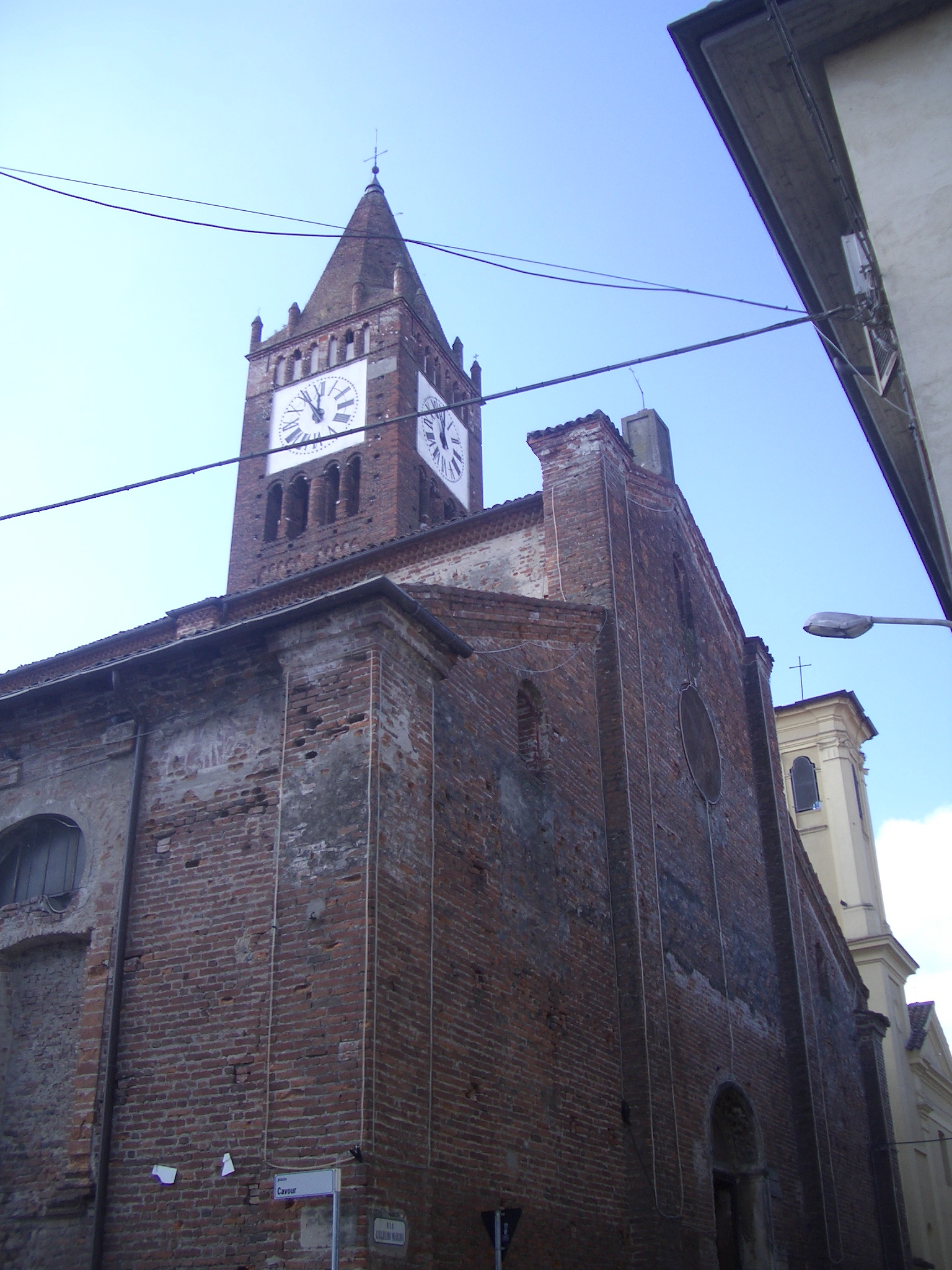 Saint Martin parish church, Fontanetto Po, Vercelli, Italy